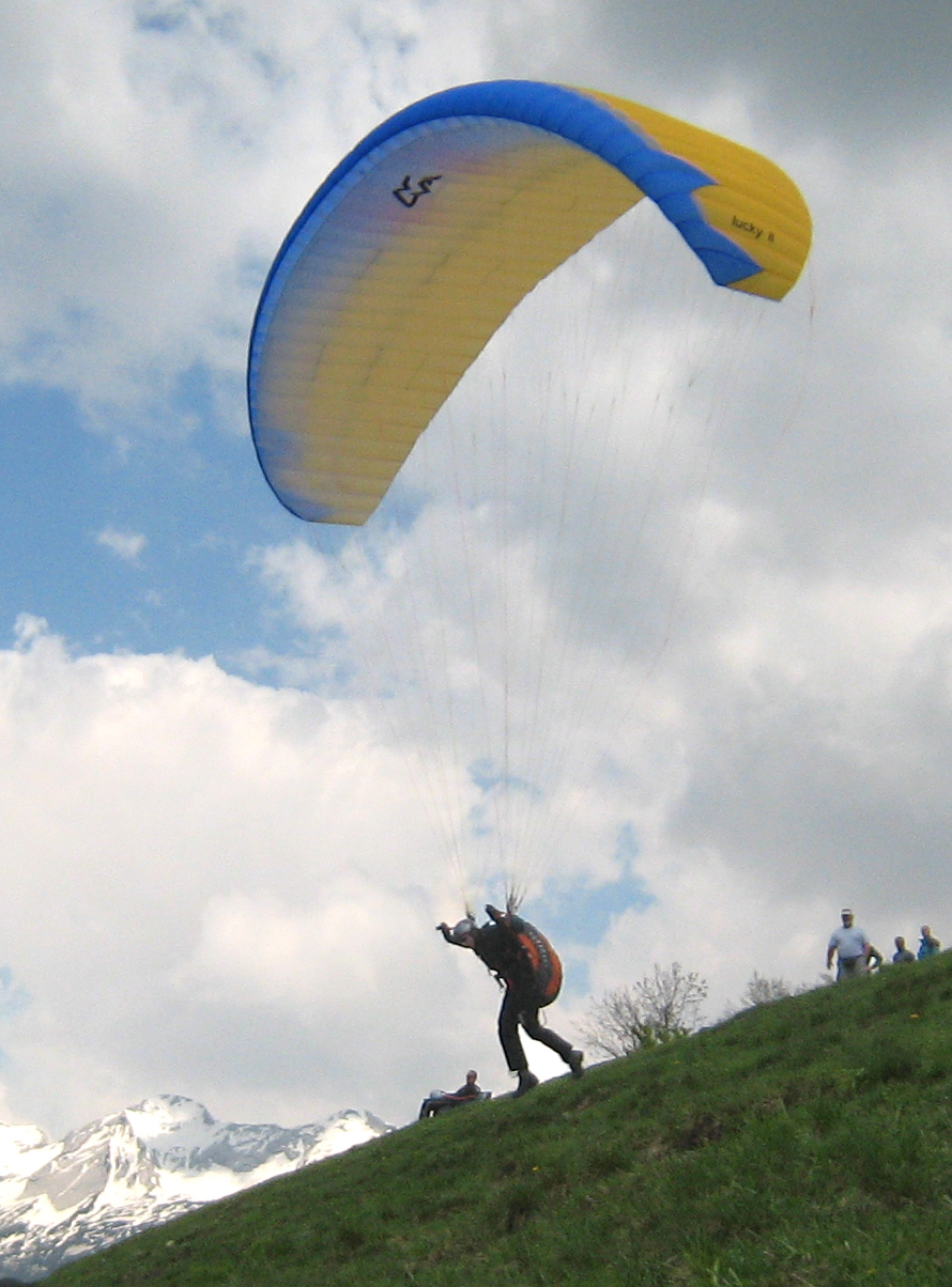 paraglider